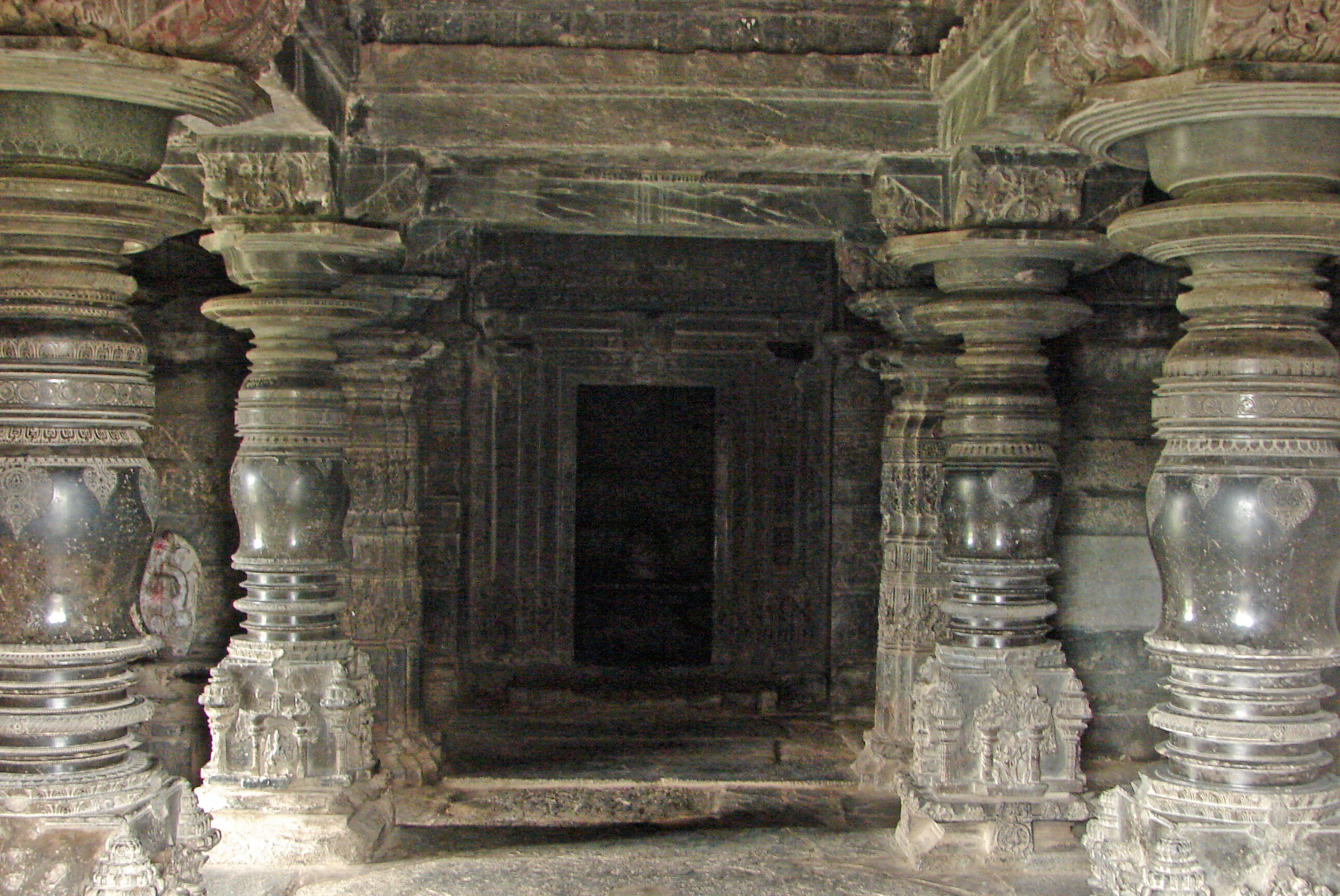 Kasivisvesvara temple in Lakkundi, Gadag district, Karnataka state, India